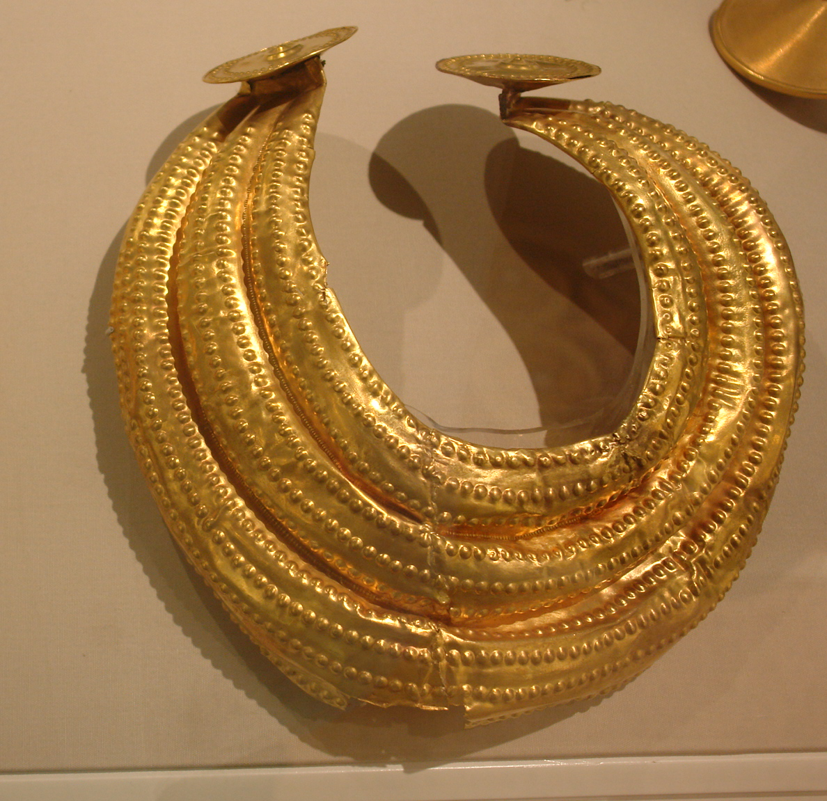 Artefact in the National Museum of Ireland, Kildare Street, Dublin, Ireland